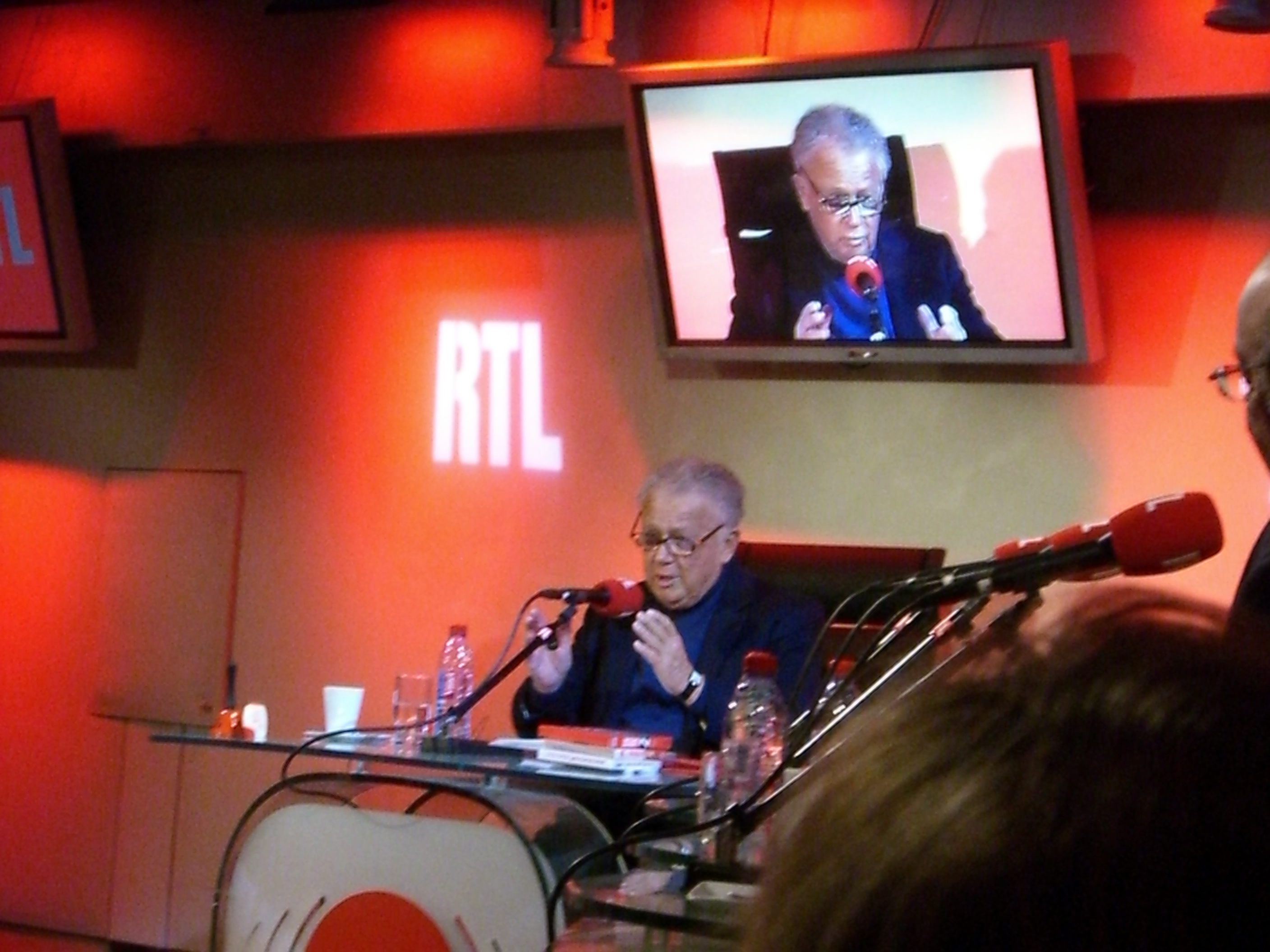 Philippe Bouvard in its program "Les Grosses tetes" on RTL.